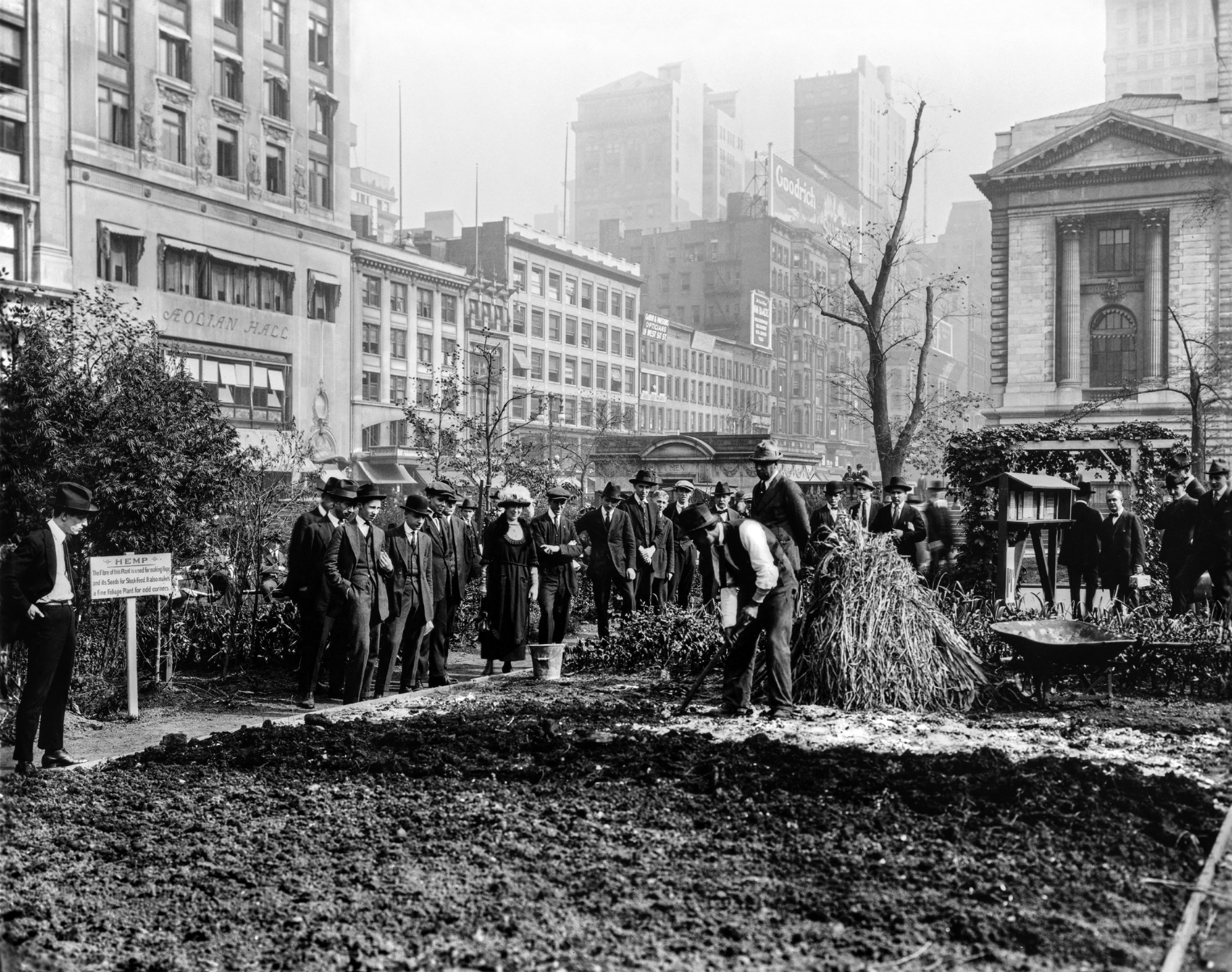 Please note: This is not a proper restoration since the photo has been edited/enhanced to make the details more visible. For editing, see notes in file history. Title: City experiment in gardening, New York City Abstract/medium: 1 photographic print. Growing hemp in Bryant Park in front of the Aeolian Hall on 29-33 West 42nd Street. Text on sign: "HEMP - The Fibre of this Plant is used for making Rope and its seeds for Stock Feed. It also makes a fine Foliage Plant for odd corners."